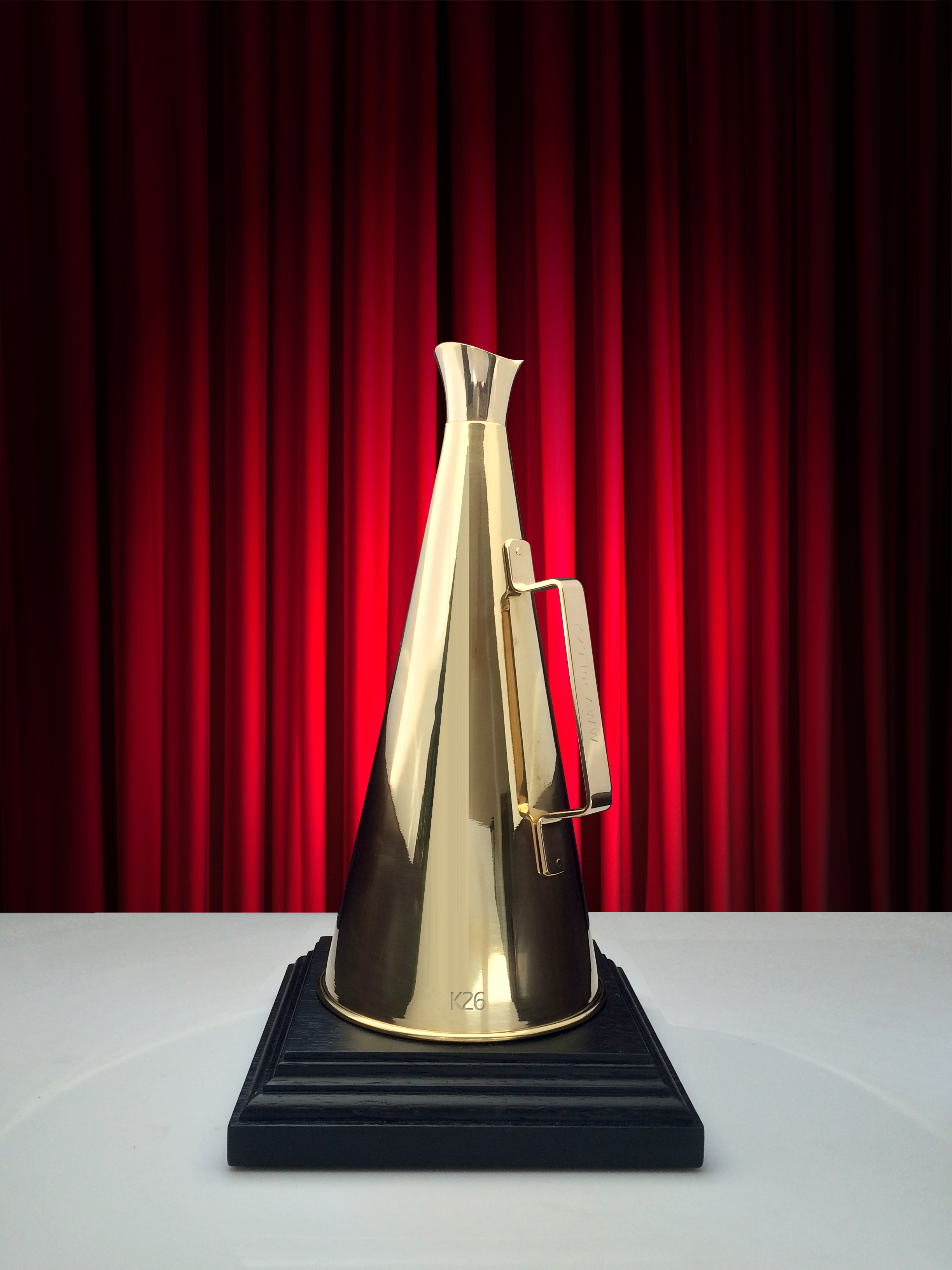 K26 Film Award for Independent Film